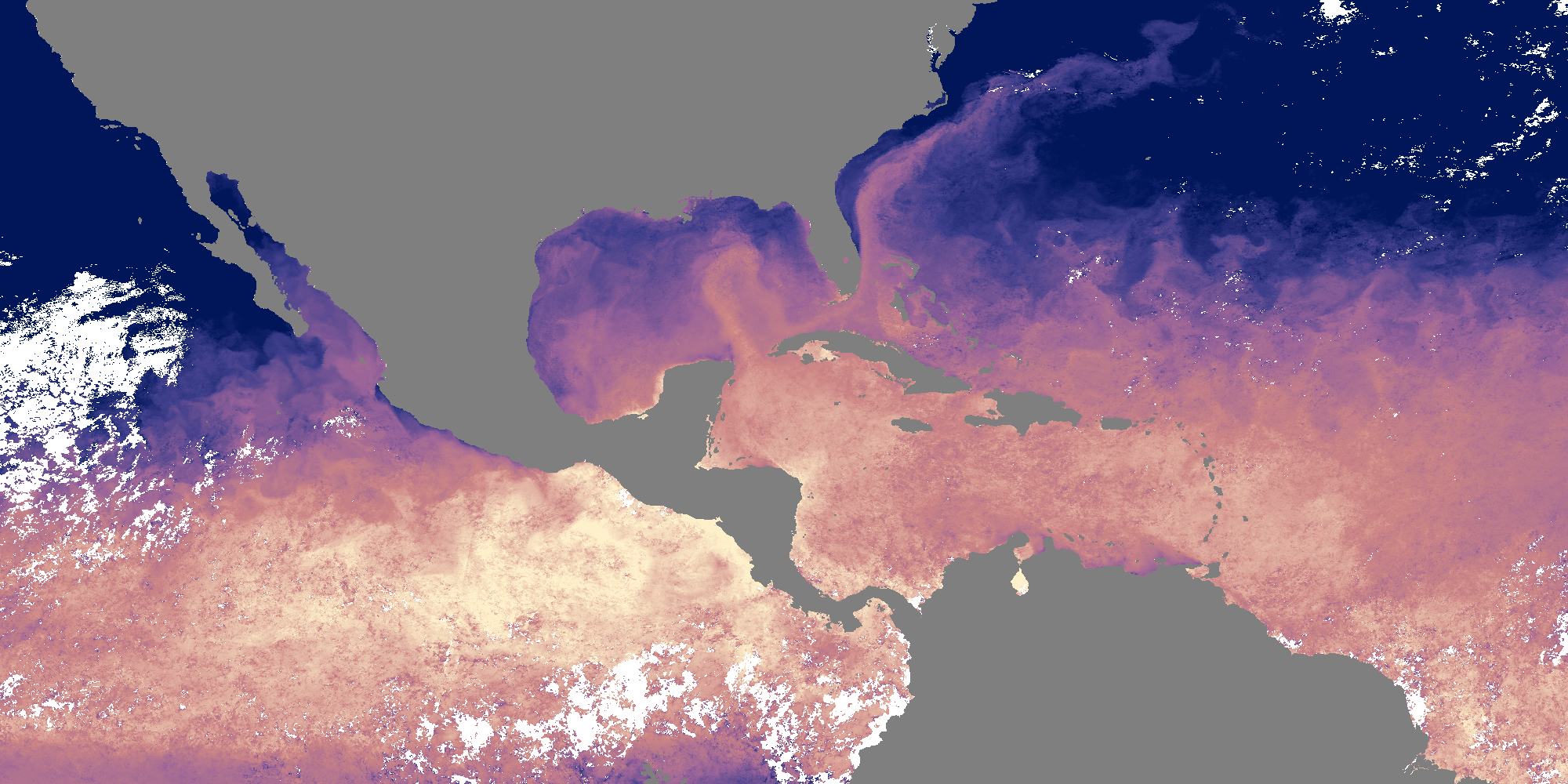 The Loop Current pushes up into the Gulf from the Caribbean Sea. The current’s tropical warmth makes it stand out from the surrounding cooler waters of the Gulf of Mexico in this image. The current loses its northward momentum about mid-way through the gulf, and bends back on itself to flow south. It joins warm waters flowing eastward between Florida and Cuba, which then merge with the Gulf Stream Current on its journey up the East Coast.